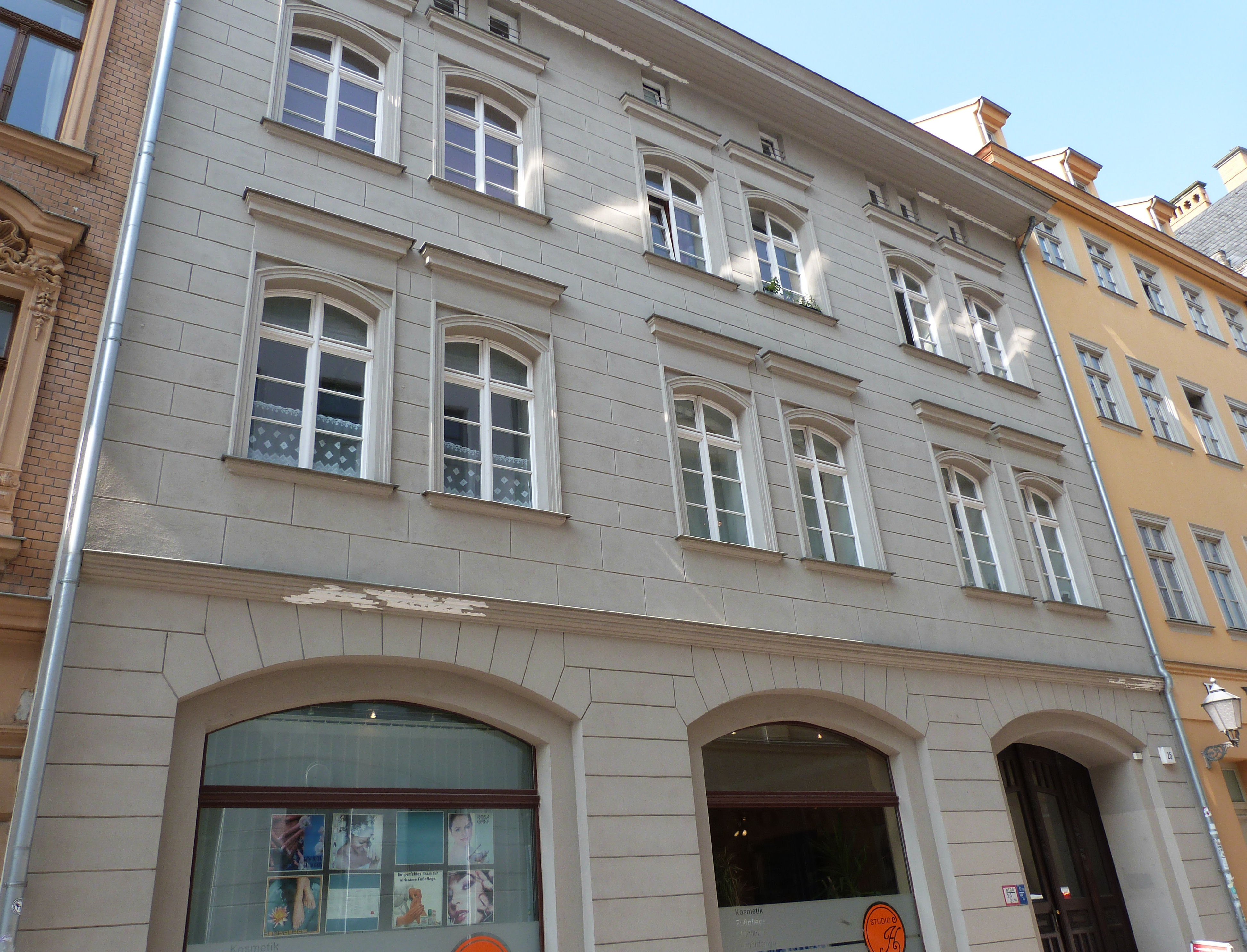 House No. 25, Grosse Märkerstrasse, Halle (Saale)